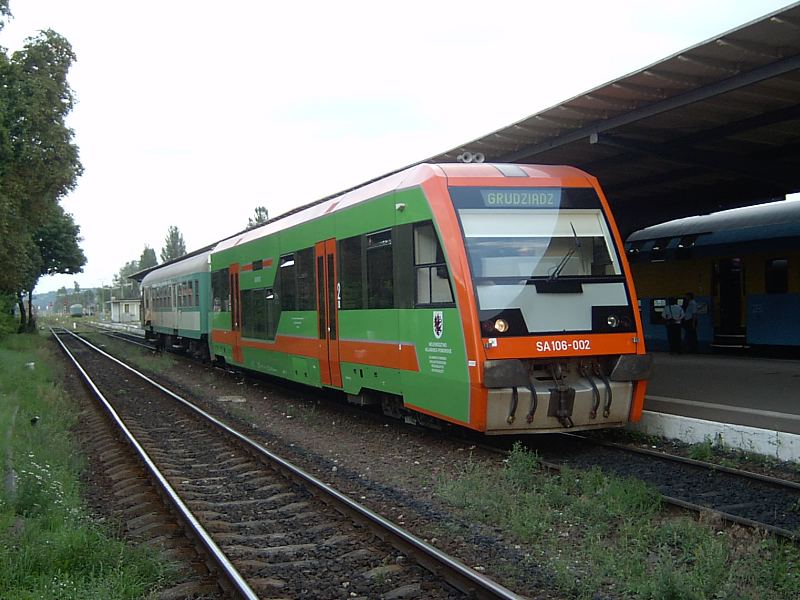 Railbus SA106